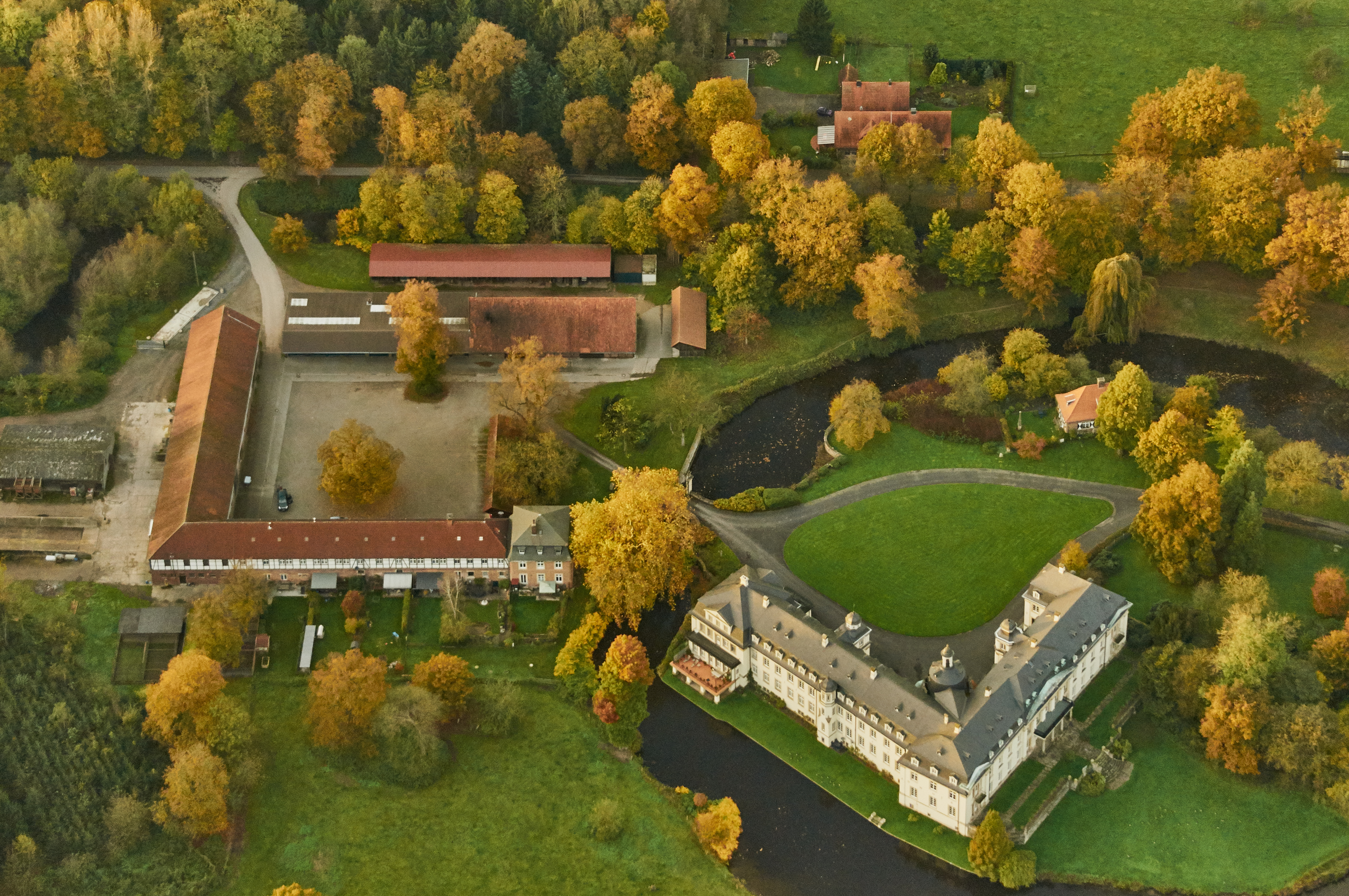 Schloss Varlar is a castle in Rosendahl, North Rhine-Westphalia, Germany.